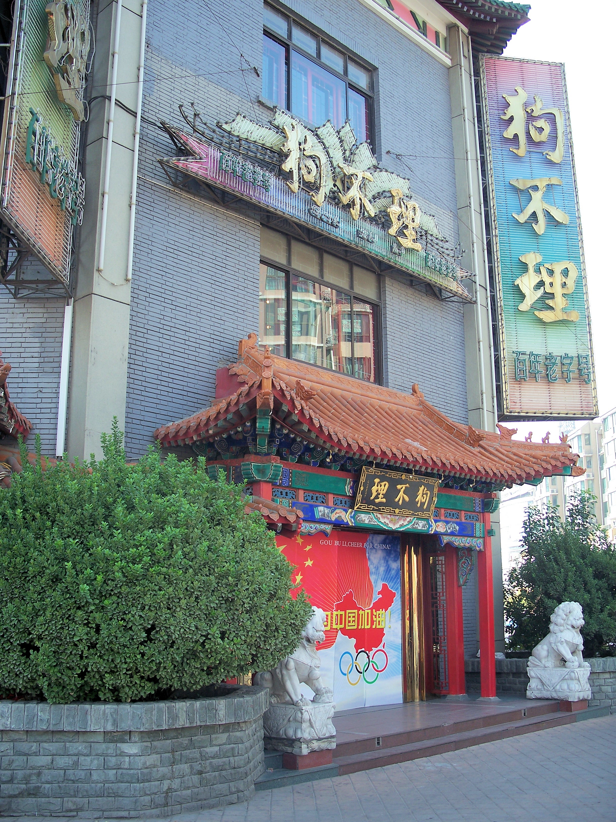 Tianjin Gobuli (Go believe)